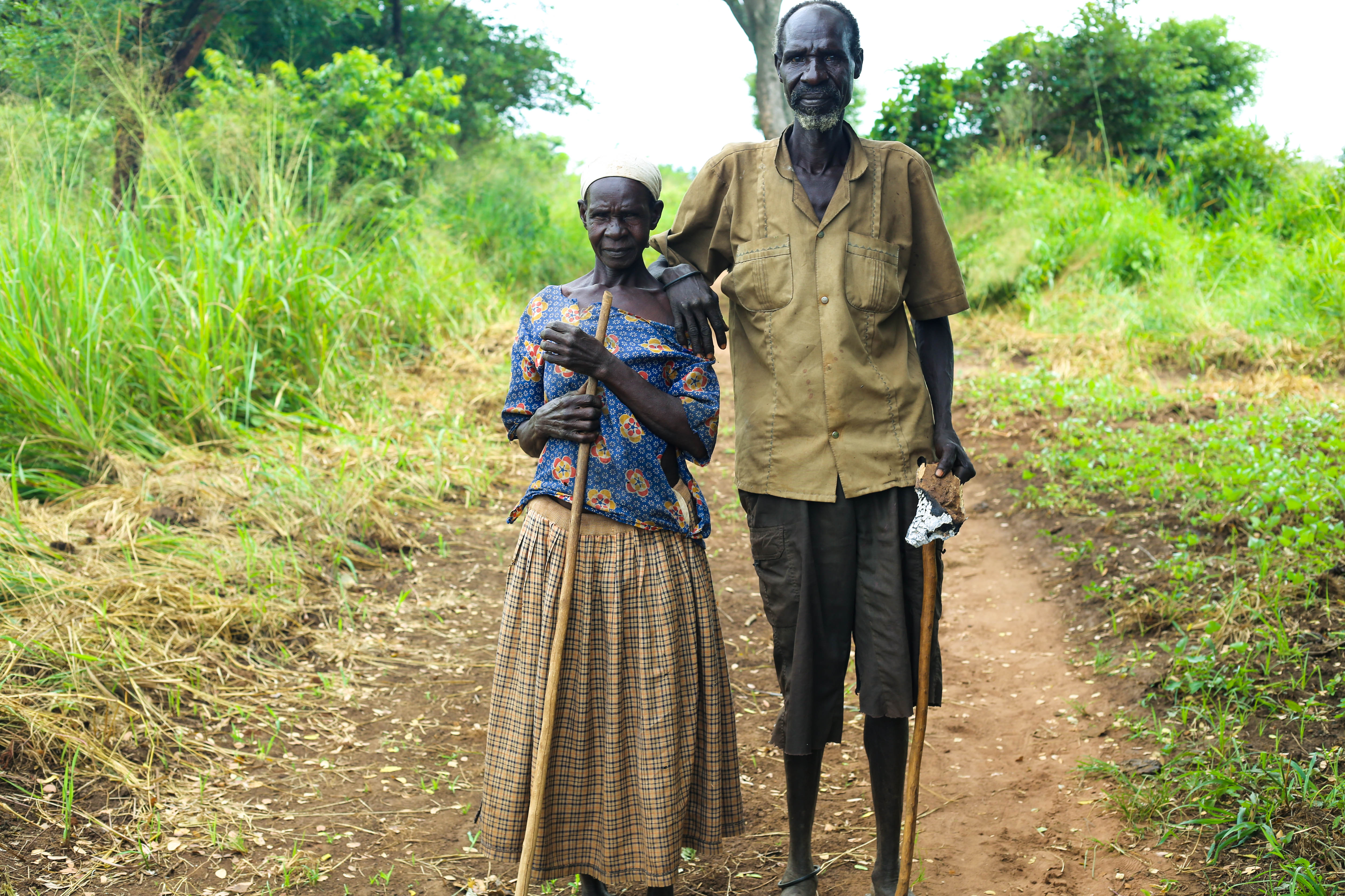 Local land owners in Omoro district, northern Uganda. This is an image of "African people at work" from Uganda